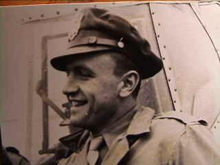 Lt Thomas E Kelly, USAAF